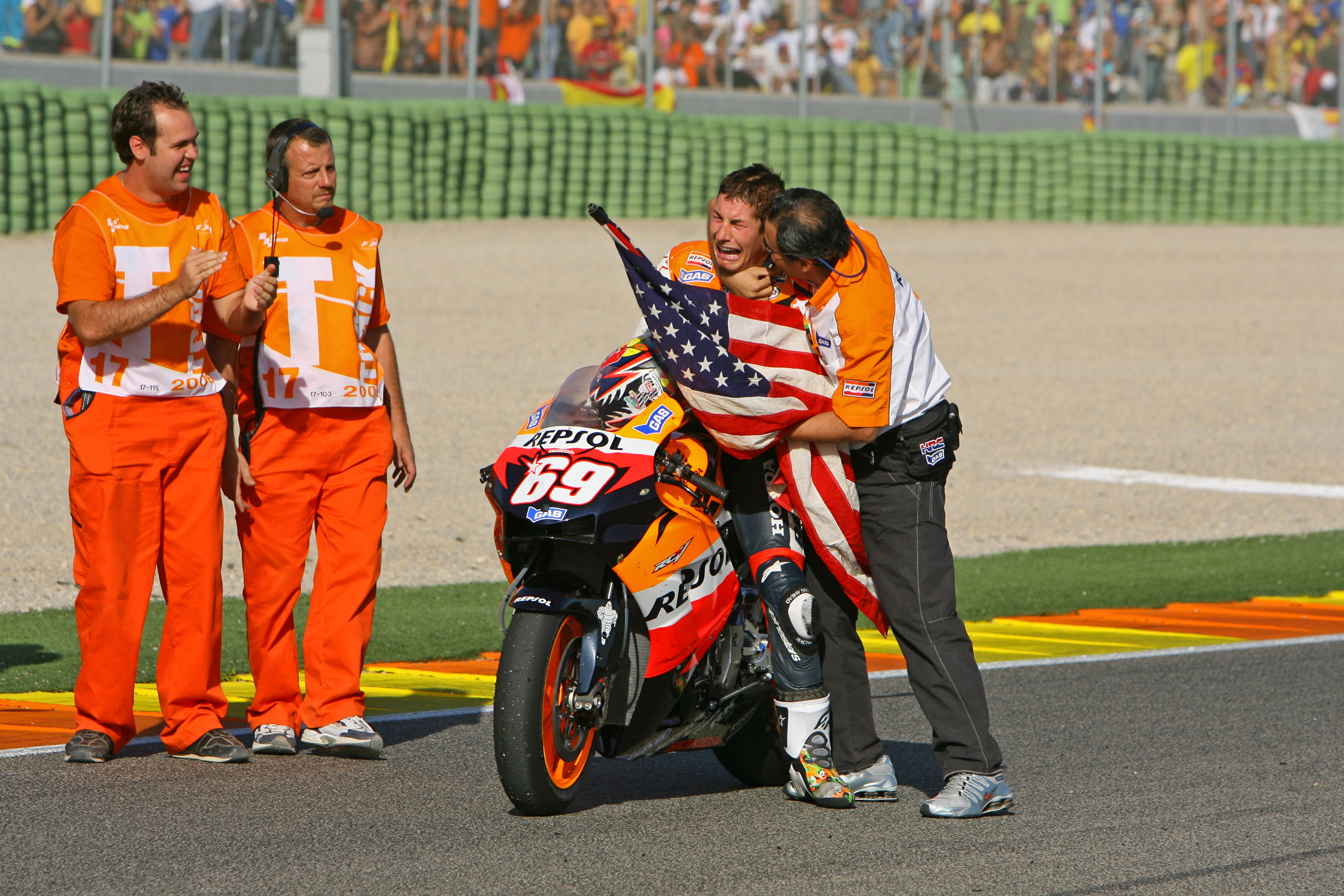 Nicky Hayden, sitting on his Repsol Honda, celebrating his world championship title at the 2006 Valencian Community Grand Prix.